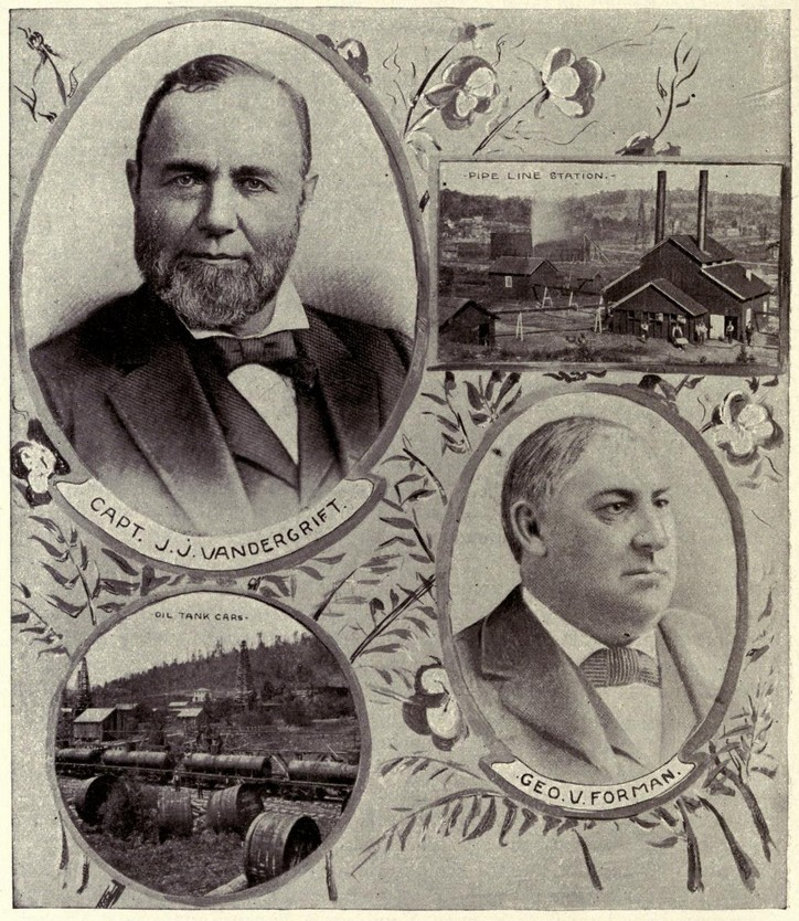 Illustration from the book Sketches in crude-oil; some accidents and incidents of the petroleum development in all parts of the globe, ... 3rd Edition. by McLaurin